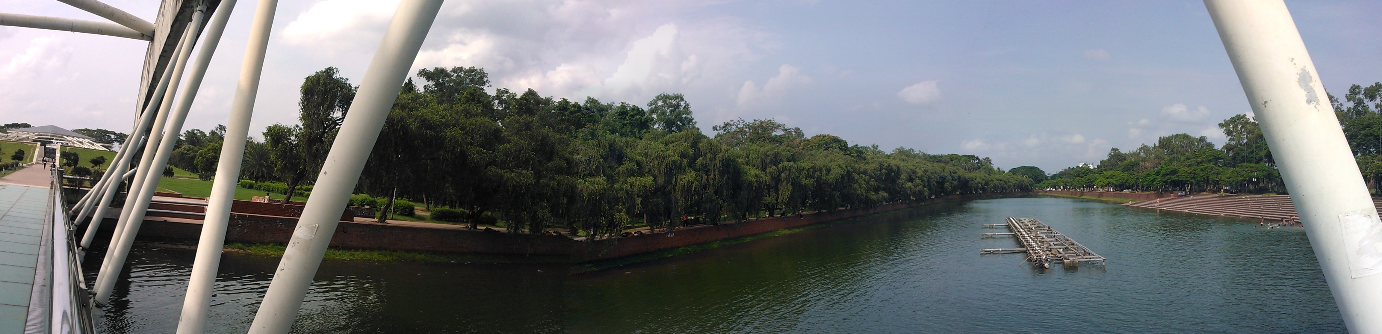 Crescent Lake at Chandrima Uddan, Dhaka, Bangladesh.